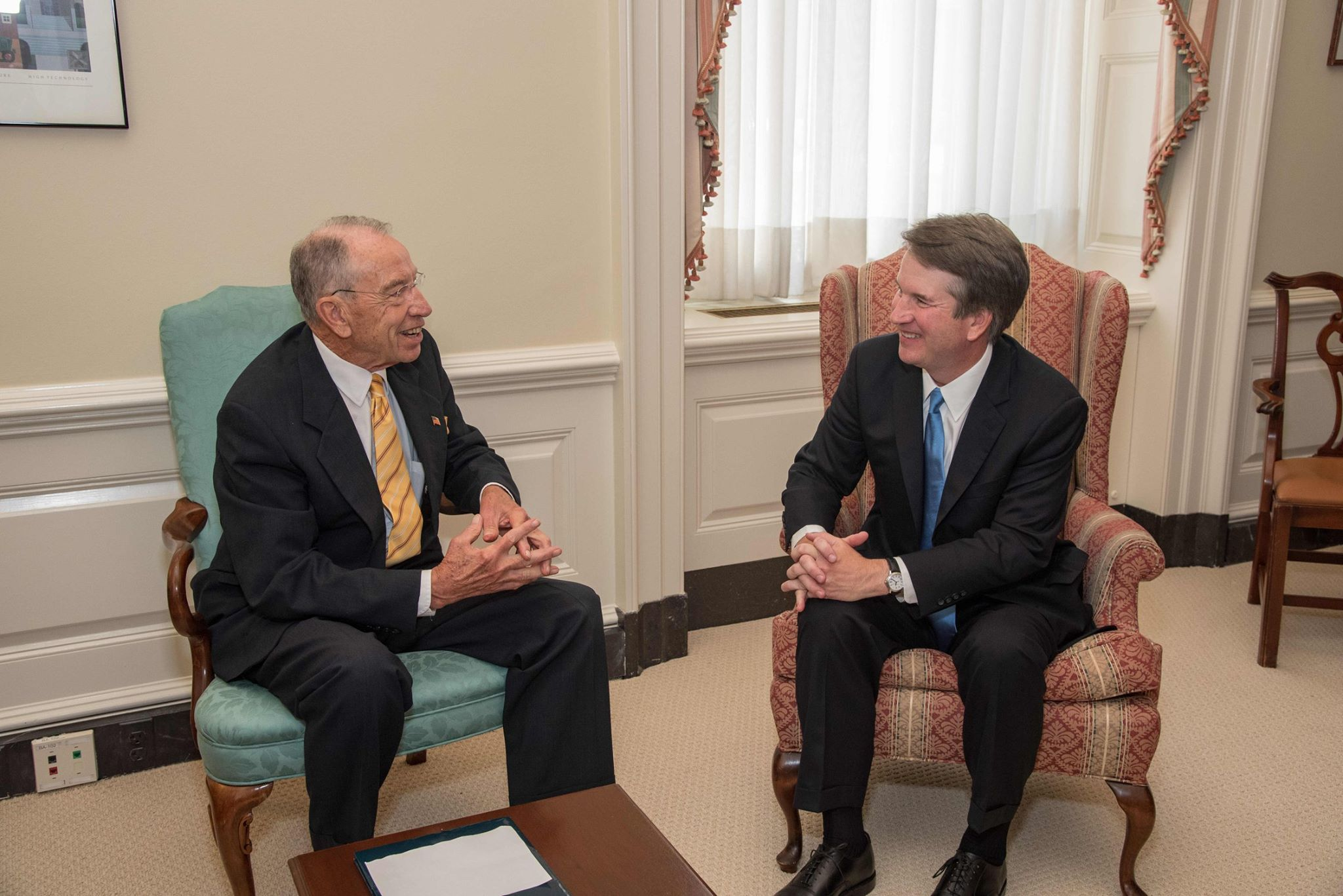 This week Senate Judiciary Committee Chairman Chuck Grassley met with President Donald Trump’s Supreme Court nominee Judge Brett Kavanaugh. #SCOTUS